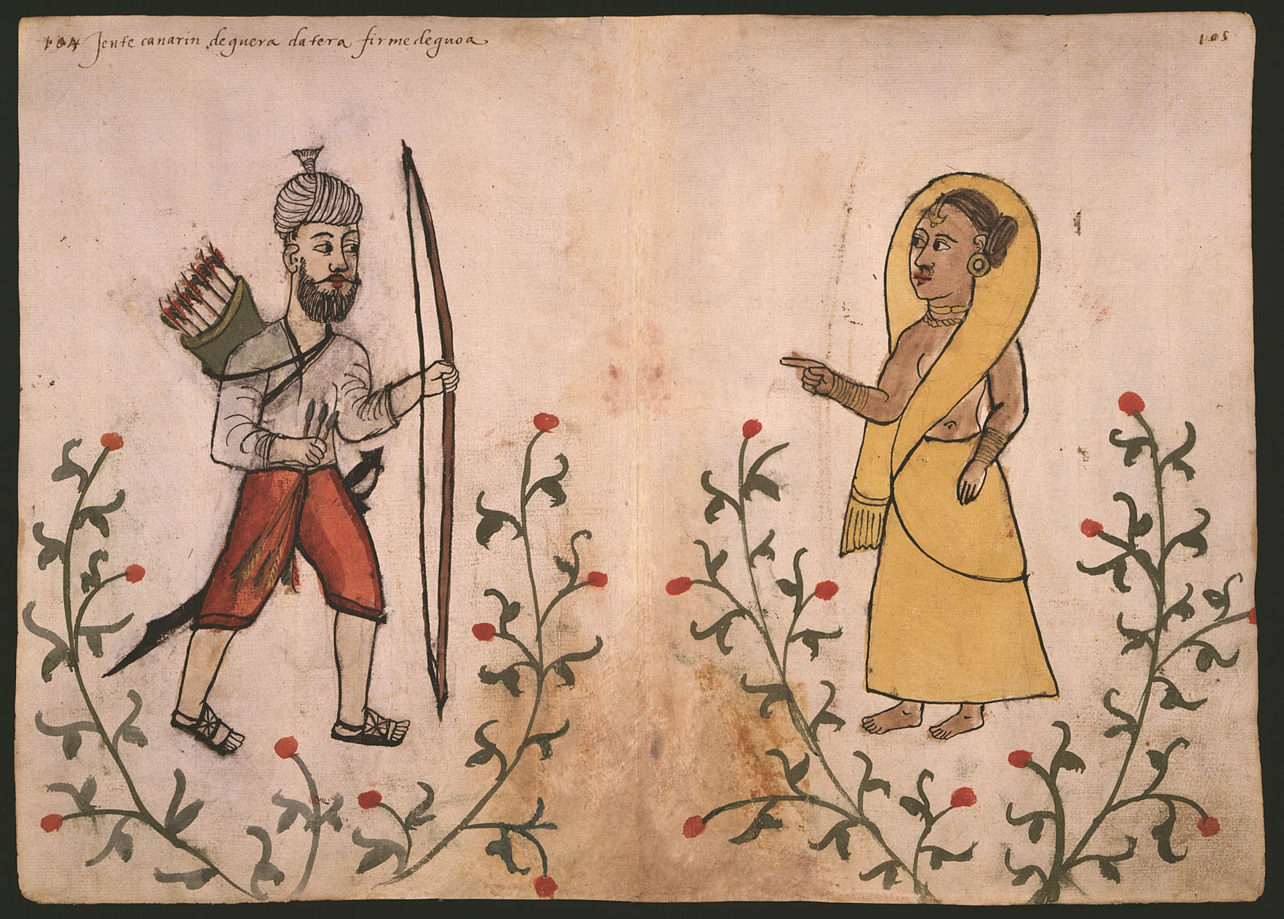 Anonymous 16th century Portuguese depiction of a foot-soldier of Kanara and his wife, contained within the Códice Casanatense. The inscription reads: "War folk of Goa's mainland"